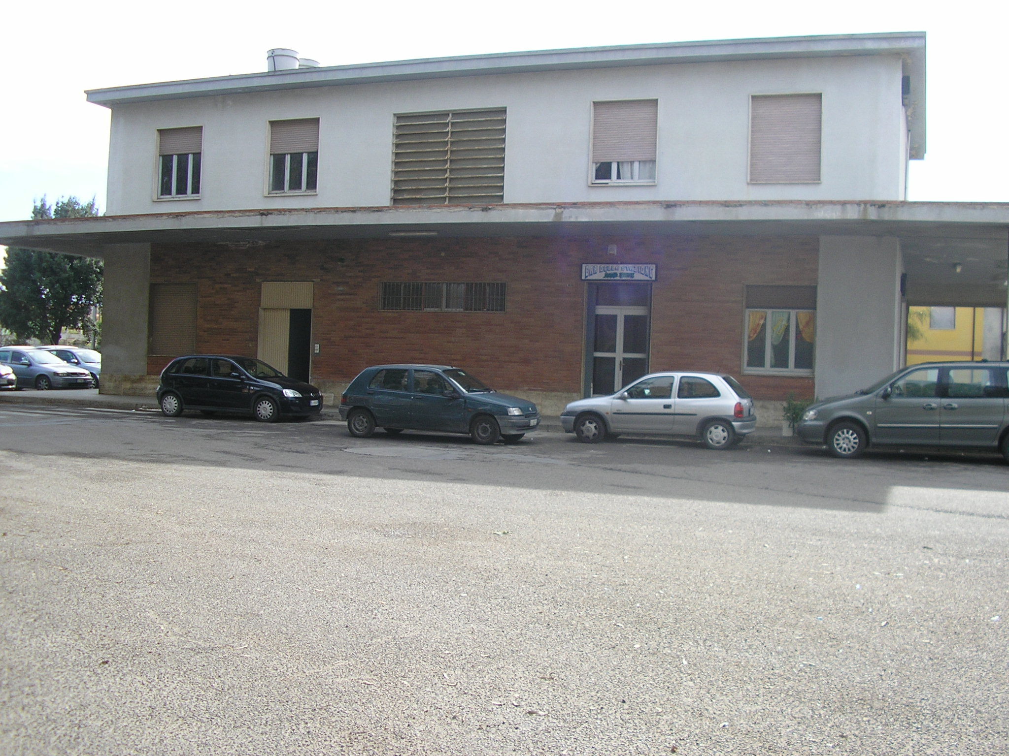 The Ferrovie della Sardegna railway station of Monserrato, Sardinia, Italy, along the Monserrato-Isili railway